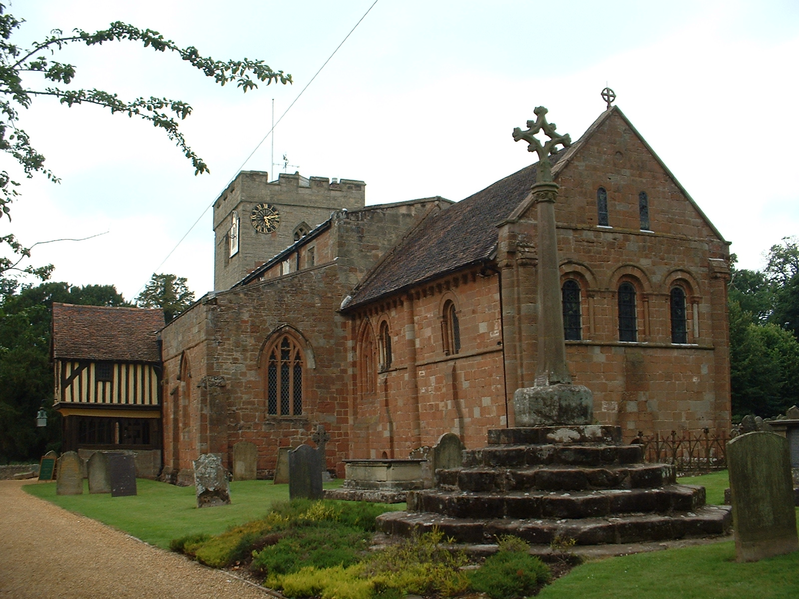 Church of St. John Baptist, Berkswell, Warwickshire. Taken by Necrothesp, 31 July 2005.